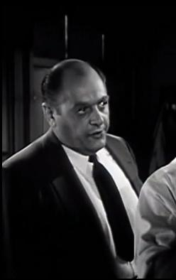 Robert Middleton as Capt. Peterson in The Big Combo